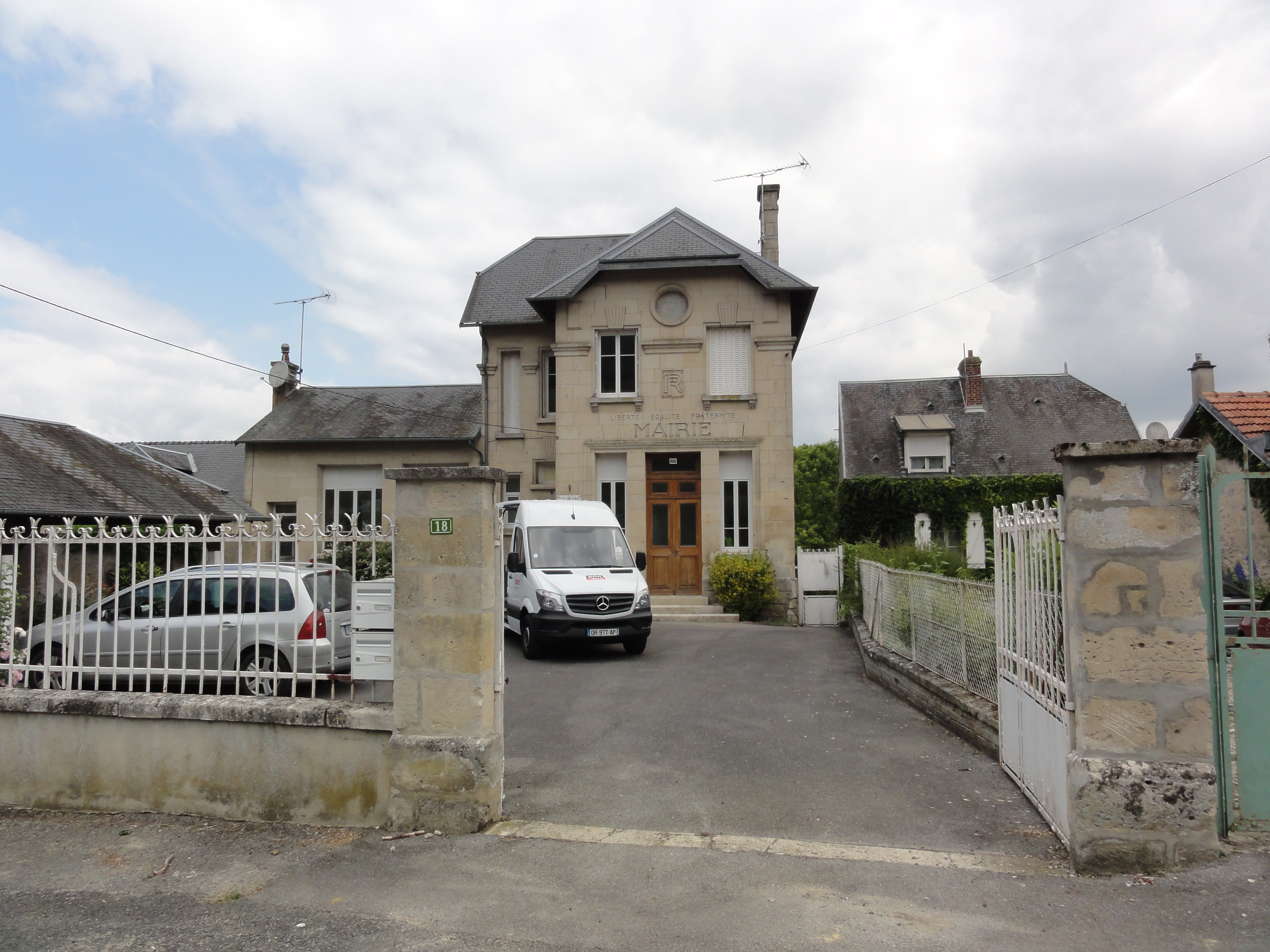 Cutry (Aisne) mairie